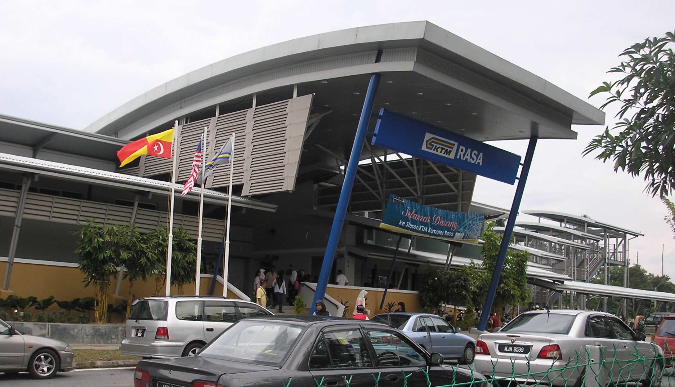 The Rasa station (Rasa-Rawang) (exterior), at Rasa, Selangor, Malaysia. And yes, the pictured Selangor flag to the left is hanging upside down.